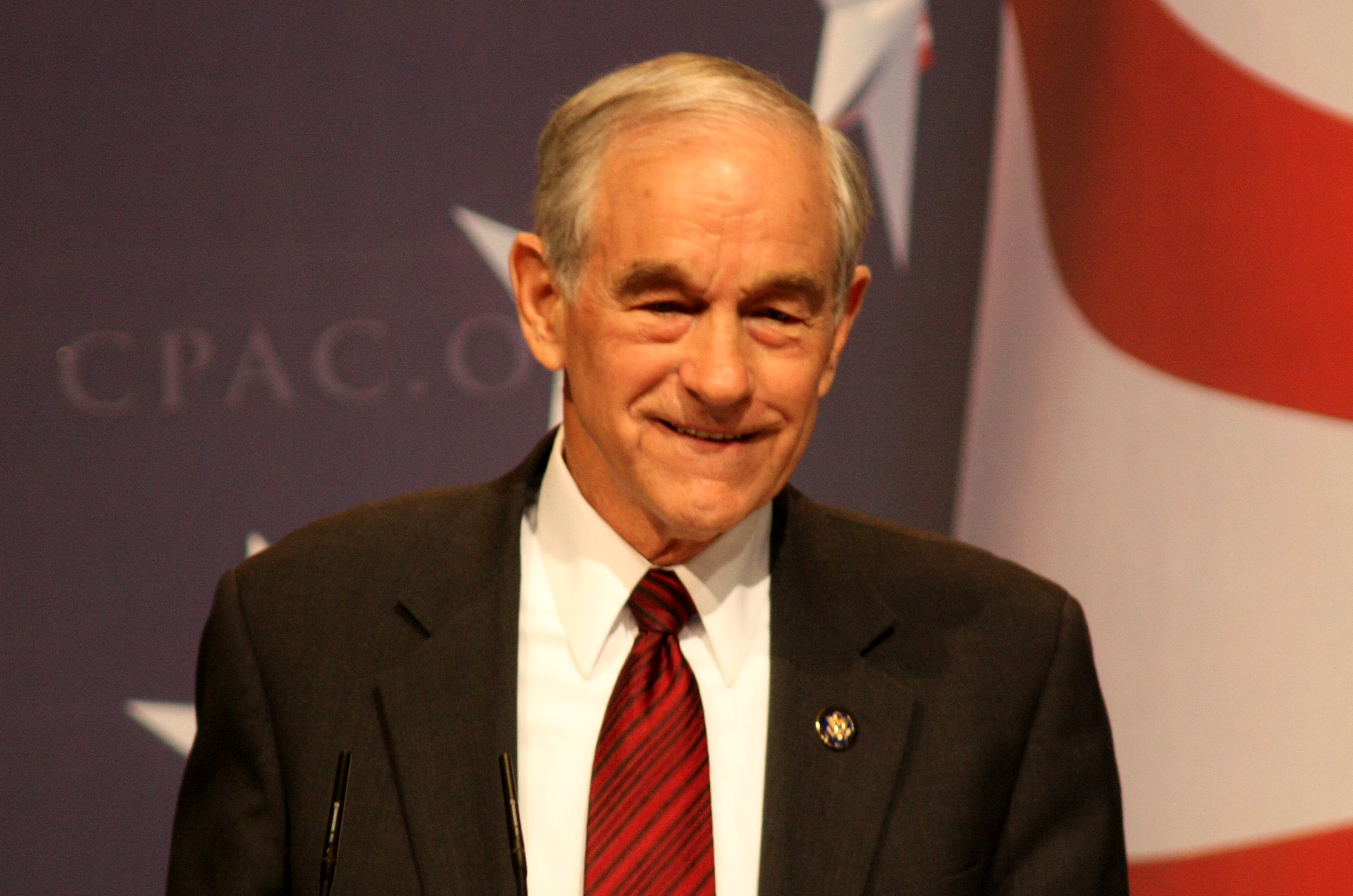 Texas Congressman Ron Paul at CPAC in Washington, D.C..